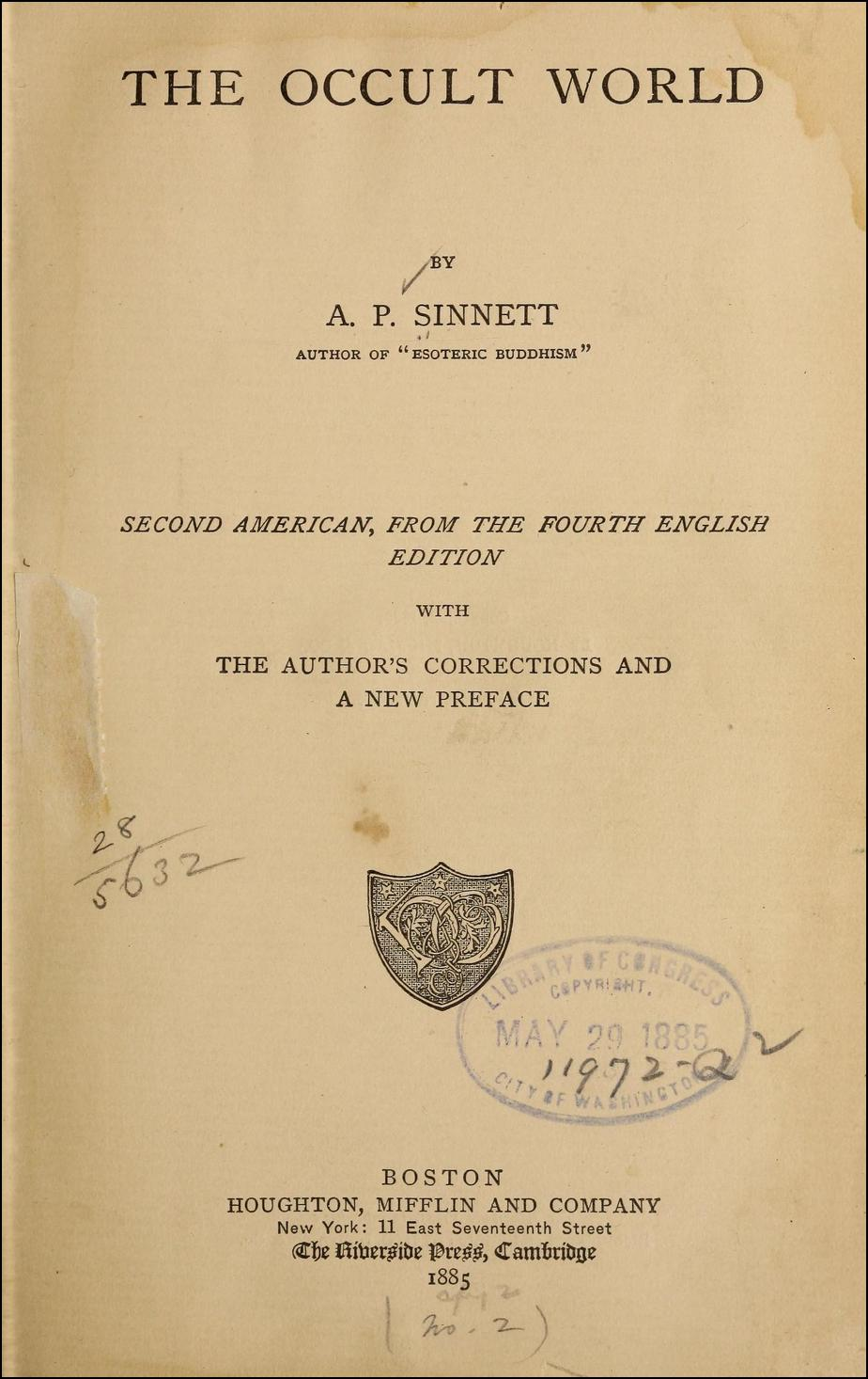 A Book The Occult World. Title page to edition 1885.